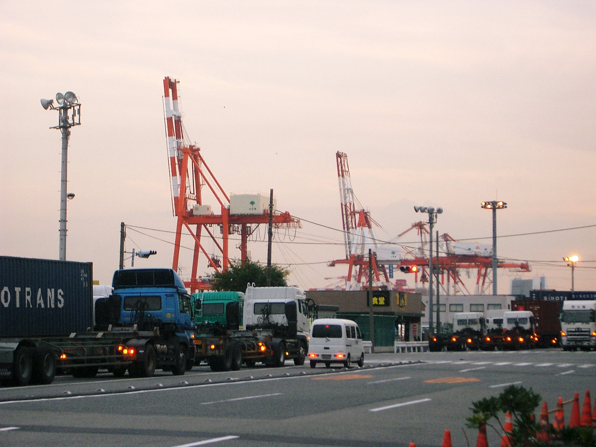 Shinagawa Pier at the Port of Tokyo